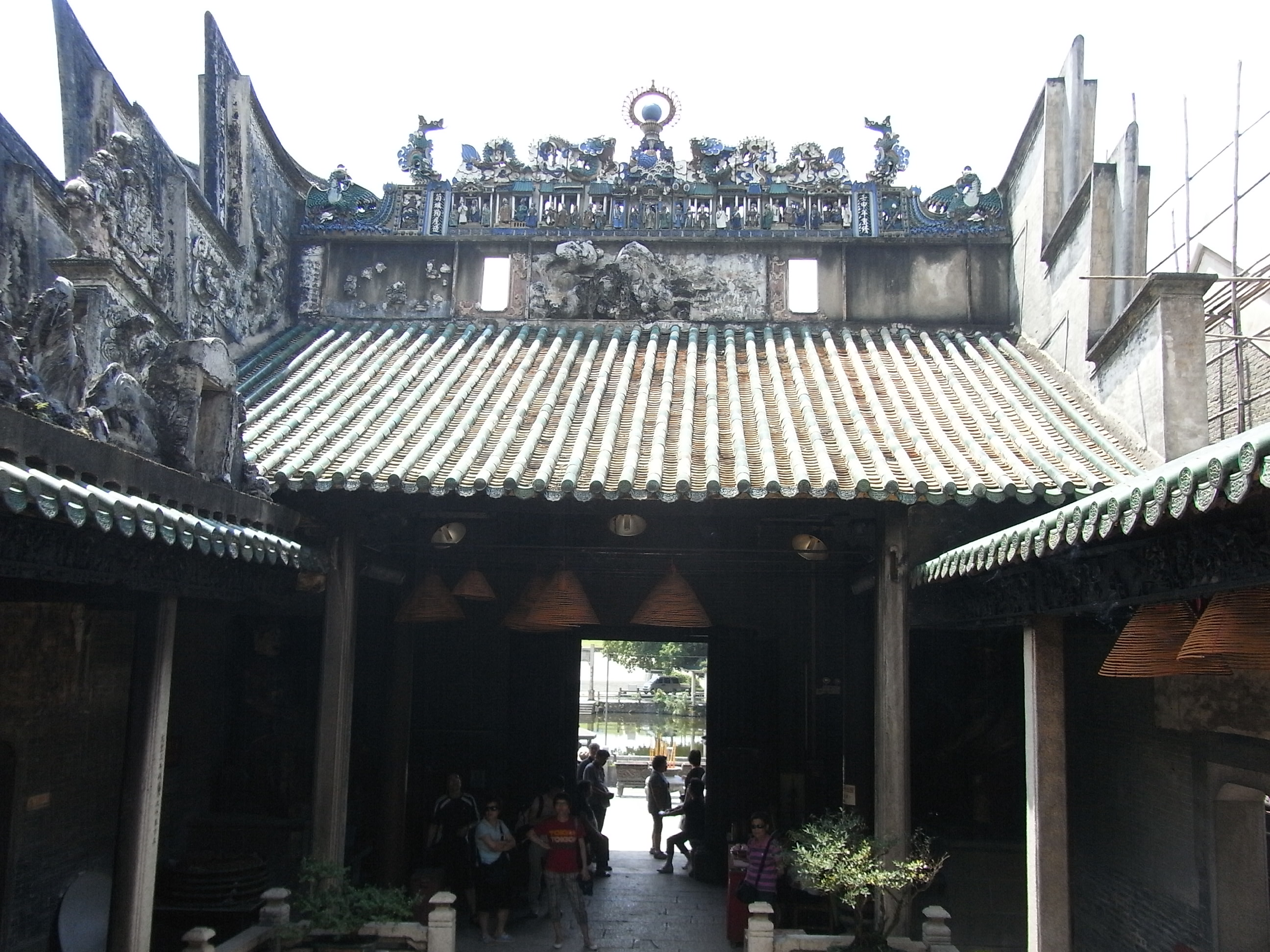 中國 廣東省 佛山市 三水區 蘆苞祖廟, Chinese Temple, Sanshui, Foshan, Guangdong, China